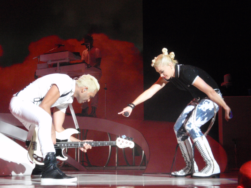 No Doubt performing during the Summer Tour 2009 in General Motors Place in Vancouver.